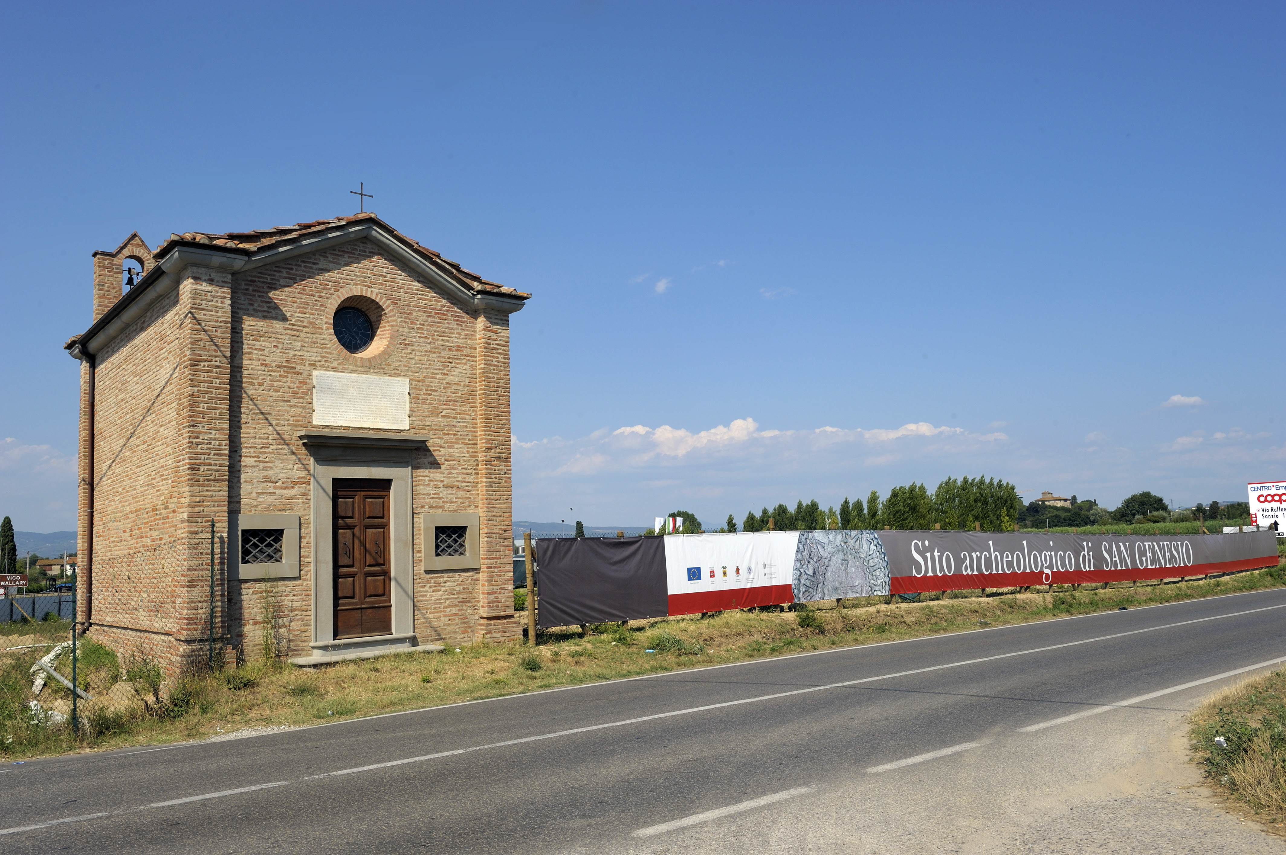 archeological site of San Genesio, Vicus Wallari, San Miniato , Pisa